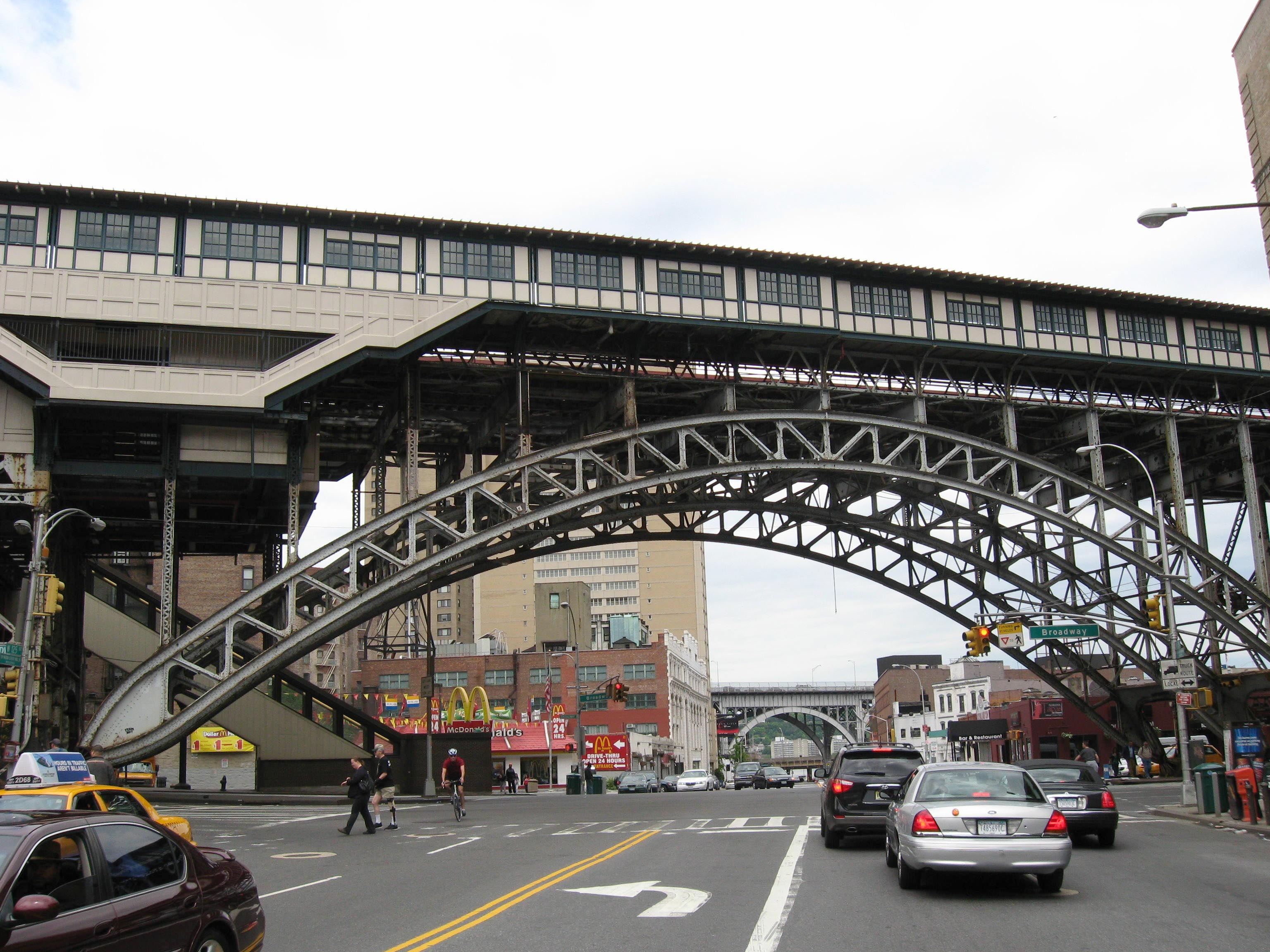 Looking northwest along en:125th Street (Manhattan) at w:125th Street (IRT Broadway–Seventh Avenue Line) on a cloudy late Sunday morning in mid May 2008.